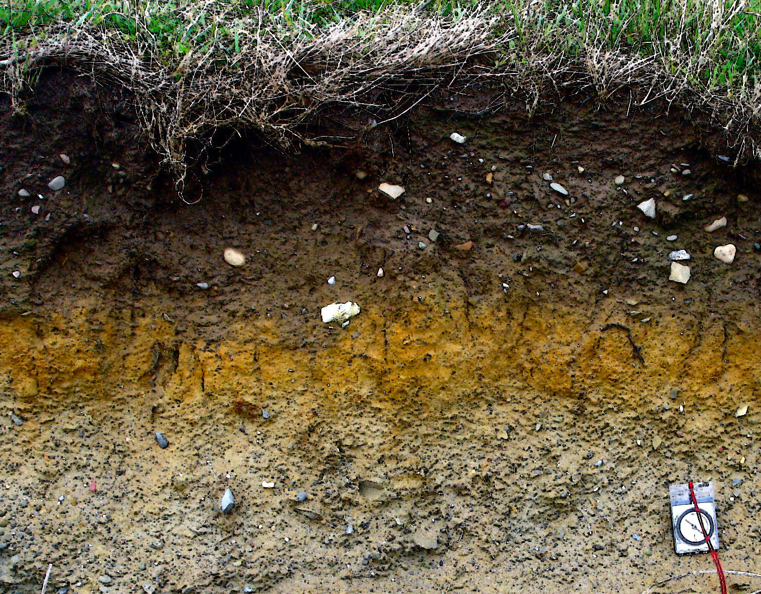 This picture of a stagnogley soil was taken by me and I make it avaiable to everyone to use